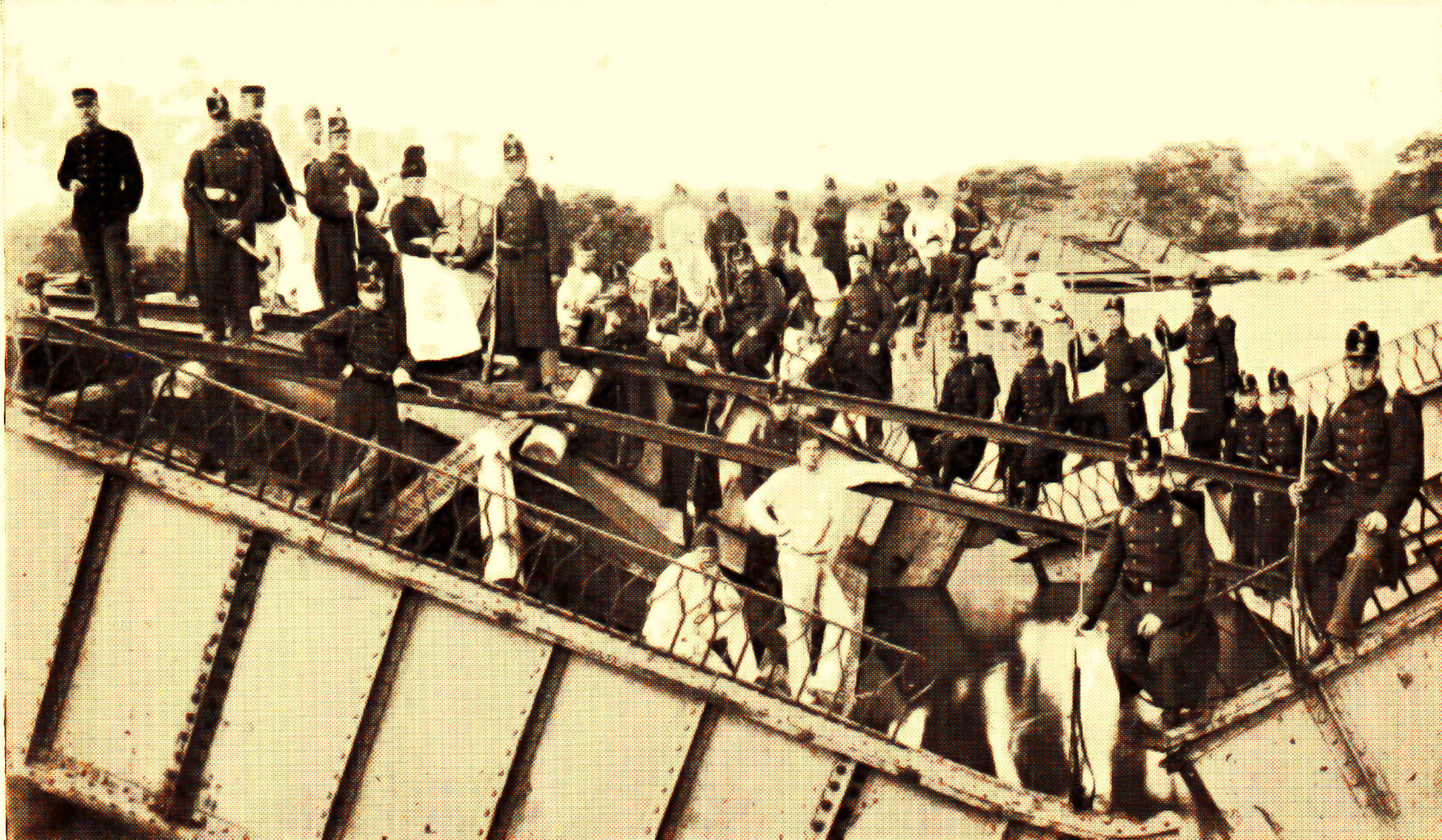 Wouter Cool in de duinen